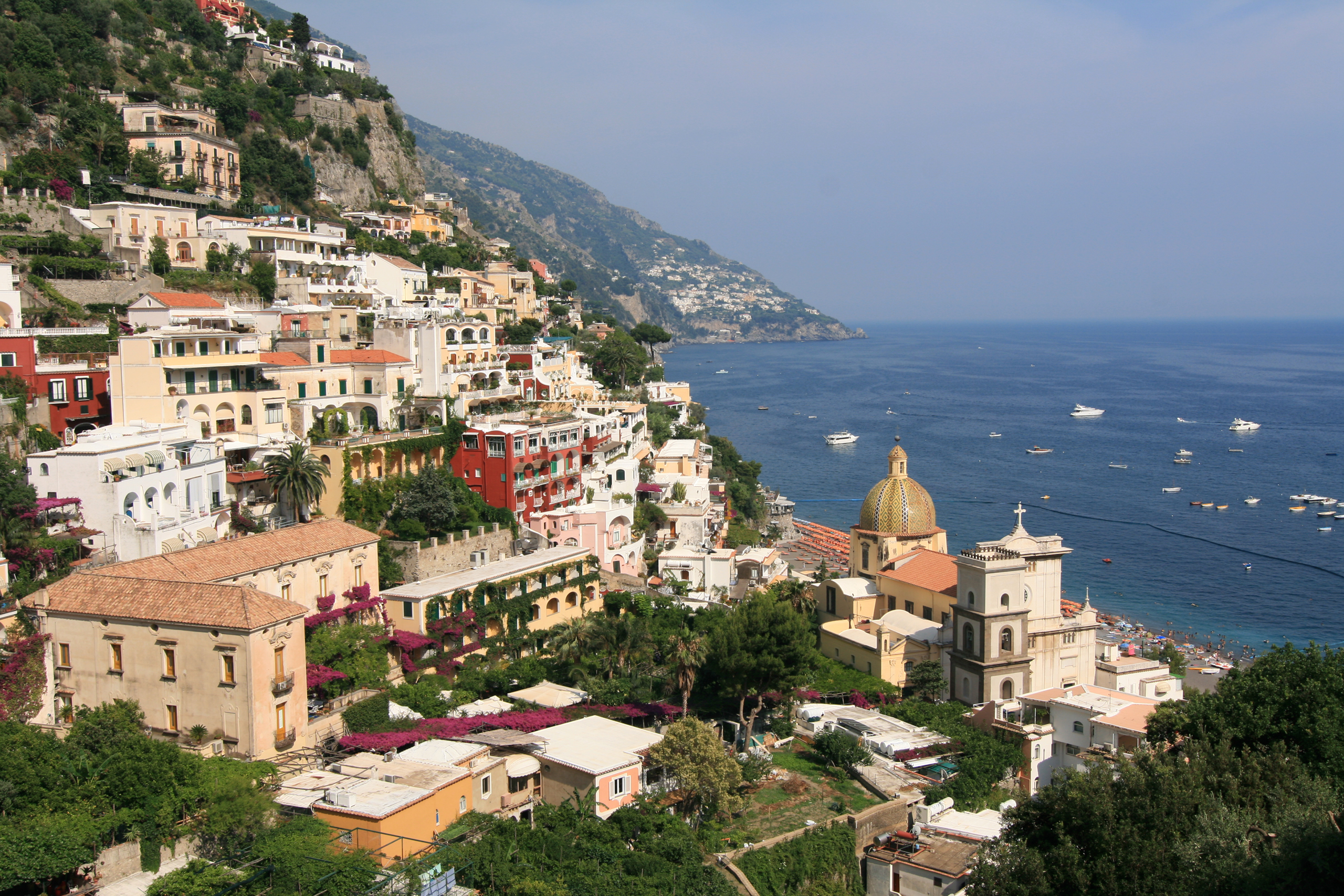 Part of Positano, Italy.